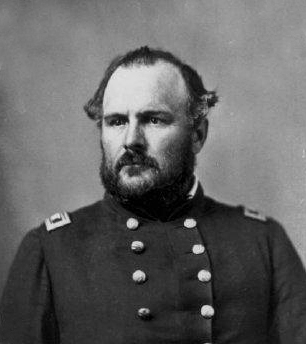 Colonel John Milton Chivington, United States Army